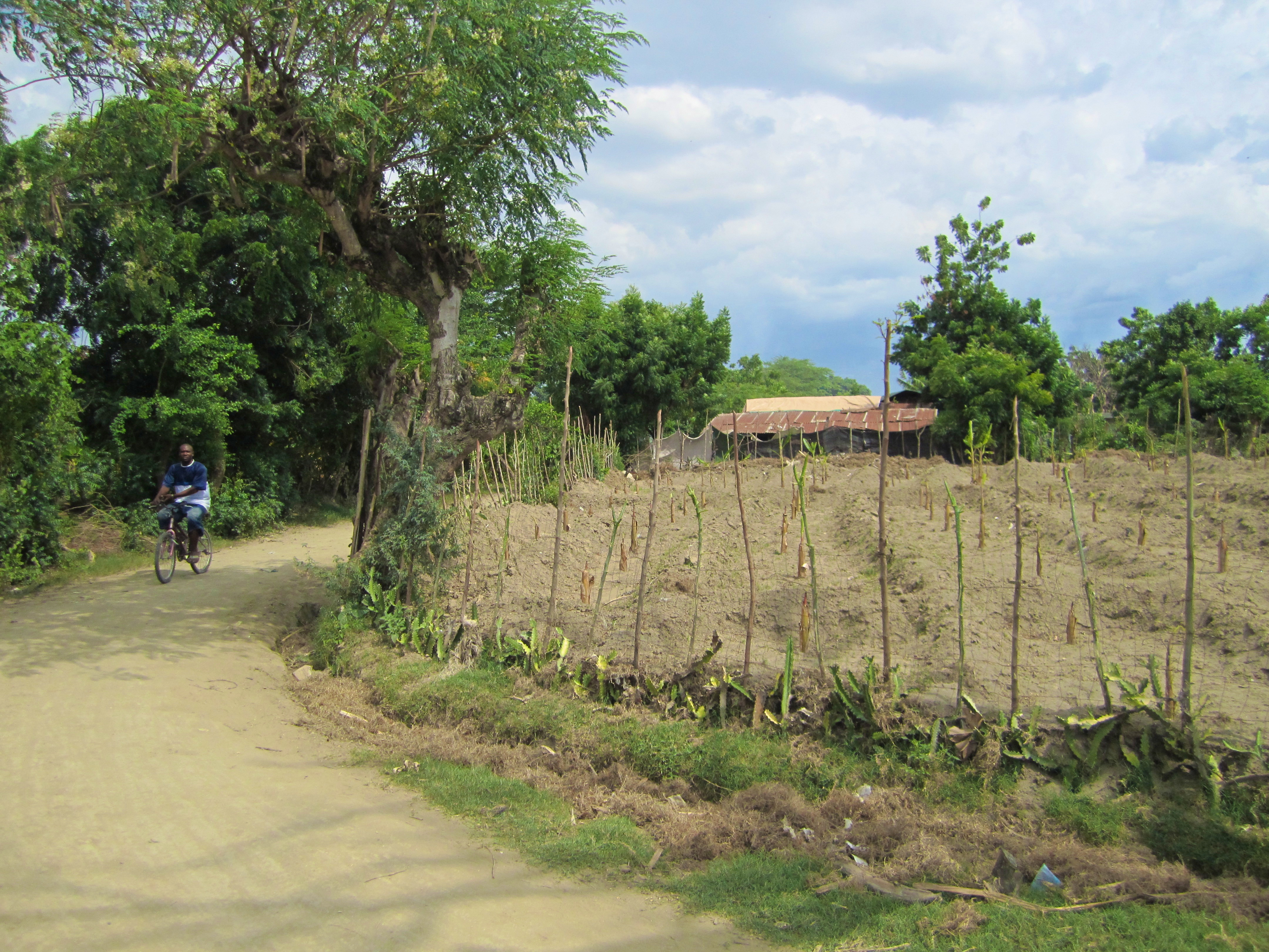 The following is the author's description of the photograph quoted directly from the photograph's Flickr page. "The rustic lifestyle in the most dangerous place in the Western Hemisphere. Soleil "